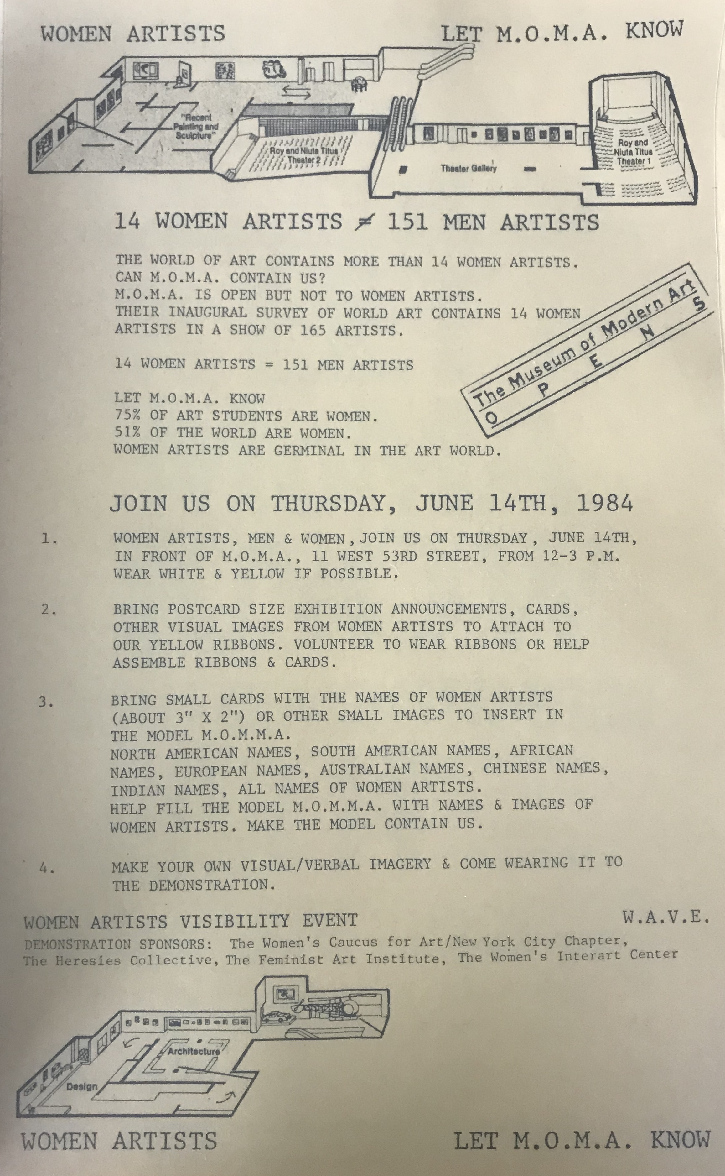 This is a flier distributed prior to the Women Artists Visibility Event (Let MOMA Know) event held on June 14th, 1984.